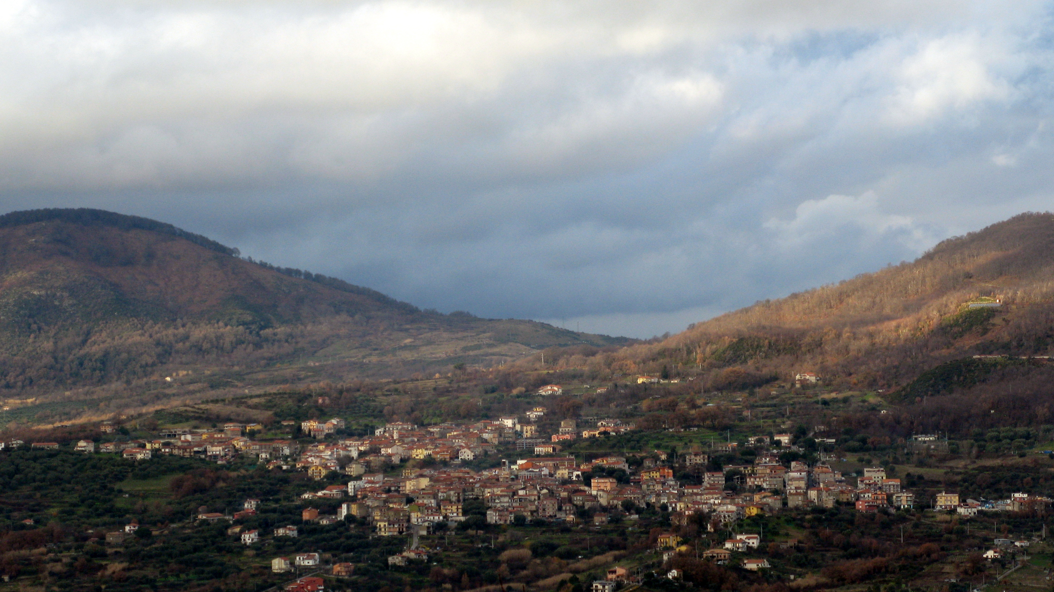 The city of Moio della Civitella